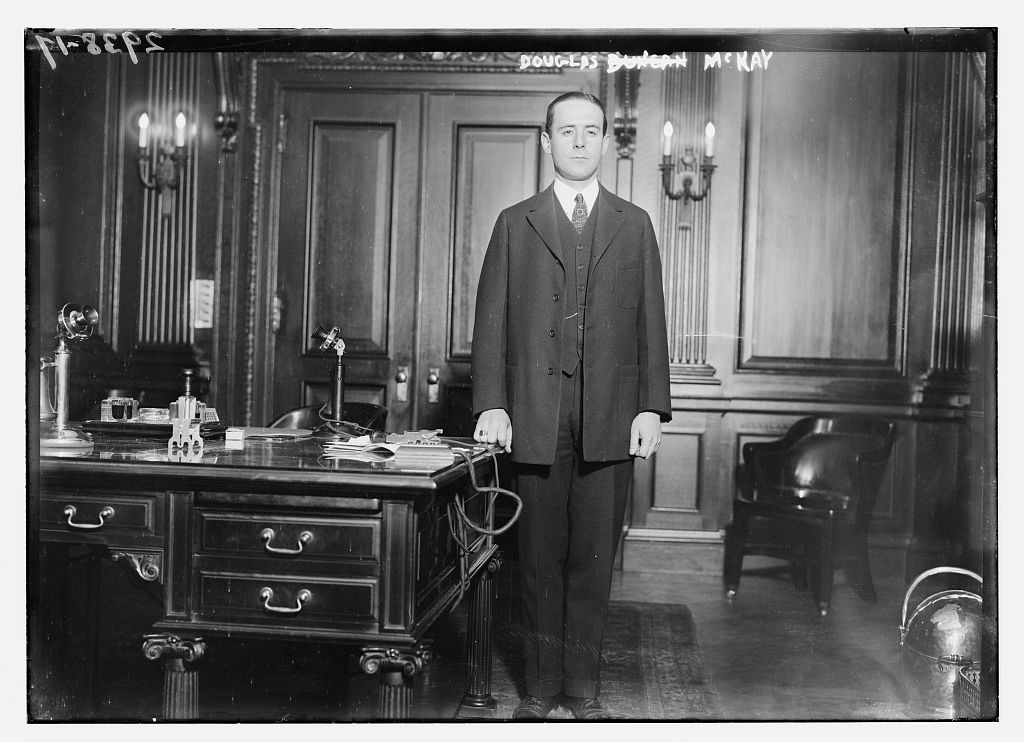 Bain News Service,, publisher. Douglas Imrie McKay [between ca. 1910 and ca. 1915] 1 negative : glass ; 5 x 7 in. or smaller. Notes: Title from unverified data provided by the Bain News Service on the negatives or caption cards. Forms part of: George Grantham Bain Collection (Library of Congress). Format: Glass negatives. Repository: Library of Congress, Prints and Photographs Division, Washington, D.C. 20540 USA, General information about the Bain Collection is available at Persistent URL: Call Number: LC-B2- 2938-17